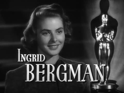 Ingrid Bergman in Rage in Heaven, by W.S. Van Dyke, Robert B. Sinclair and Richard Thorpe (1941)